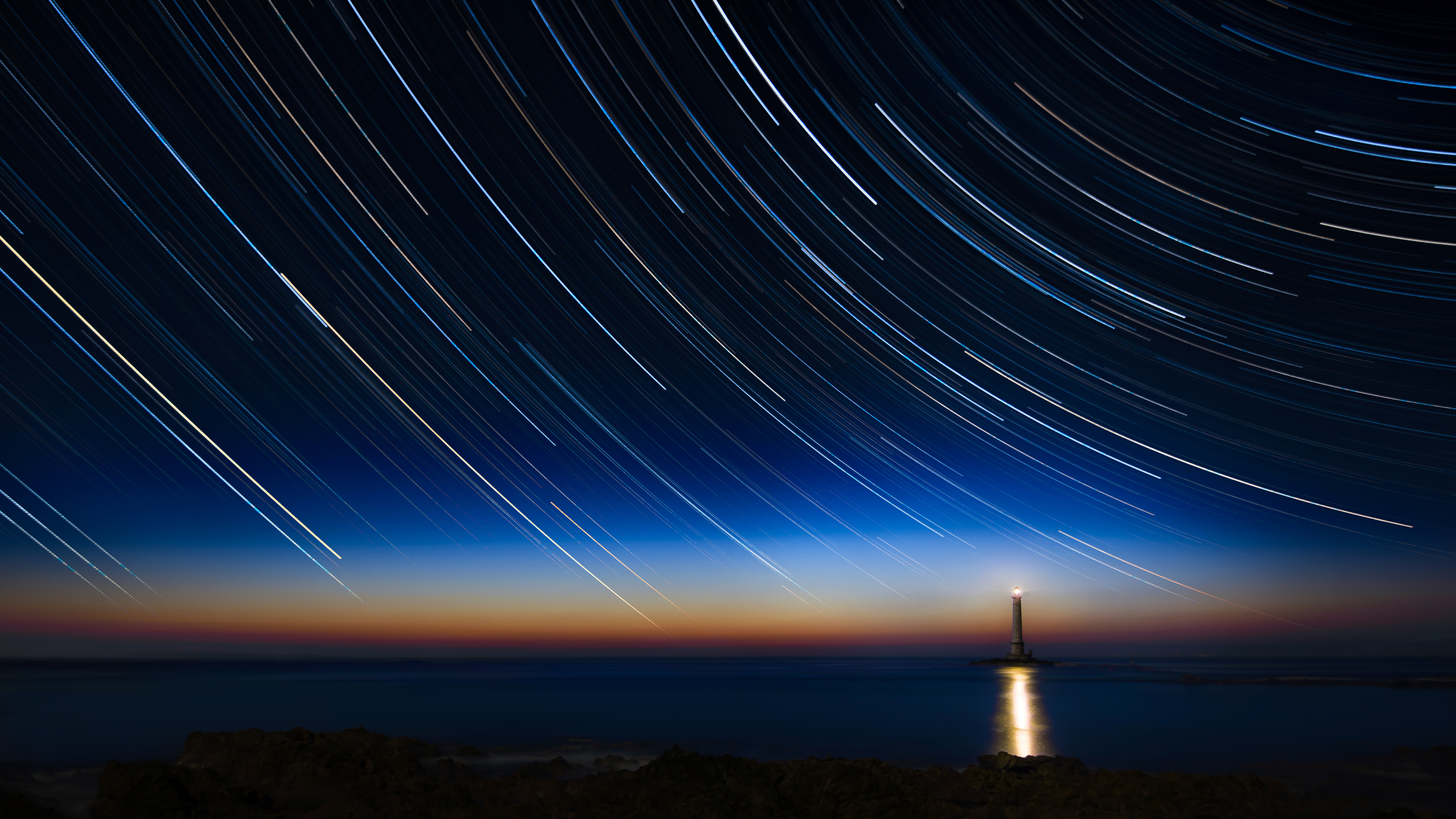 Circumpolar stars in star trails (made with a light-stacking of 250 photos, each exposed 30s, which is equivalent to a 2h05 exposed photo) at the La Hague lighthouse, France.